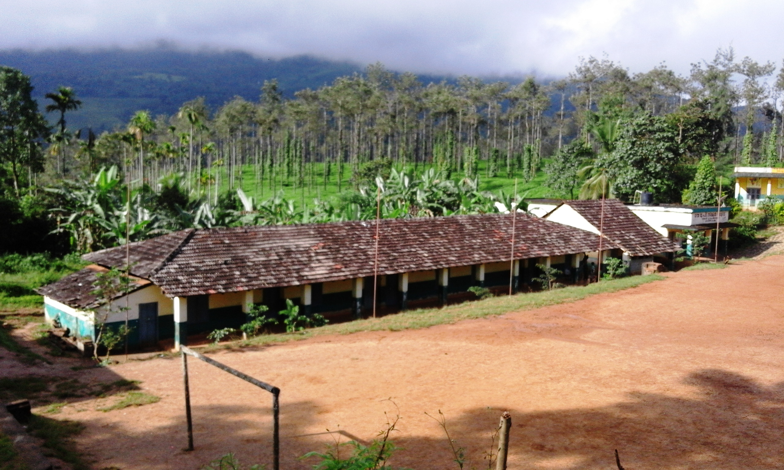 Govt UP School, Kottanad, Chundale-Meppadi Road, Wayanad, Kerala, India.